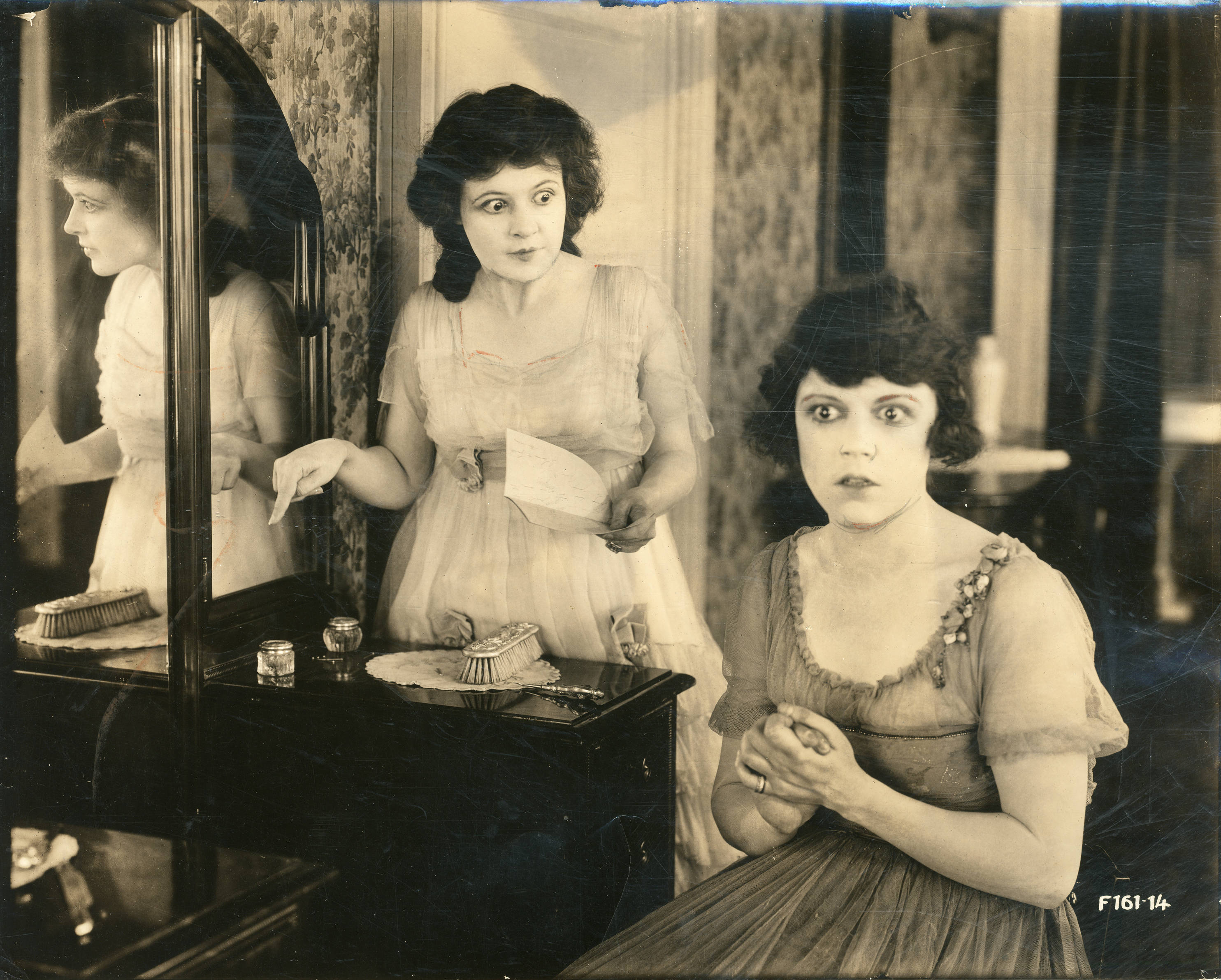 Marguerite Clark in a scene from the American film Bab's Diary (1917), which opened at the Coliseum Theater, Seattle, on Sept. 23, 1917. Subjects: motion pictures, actresses